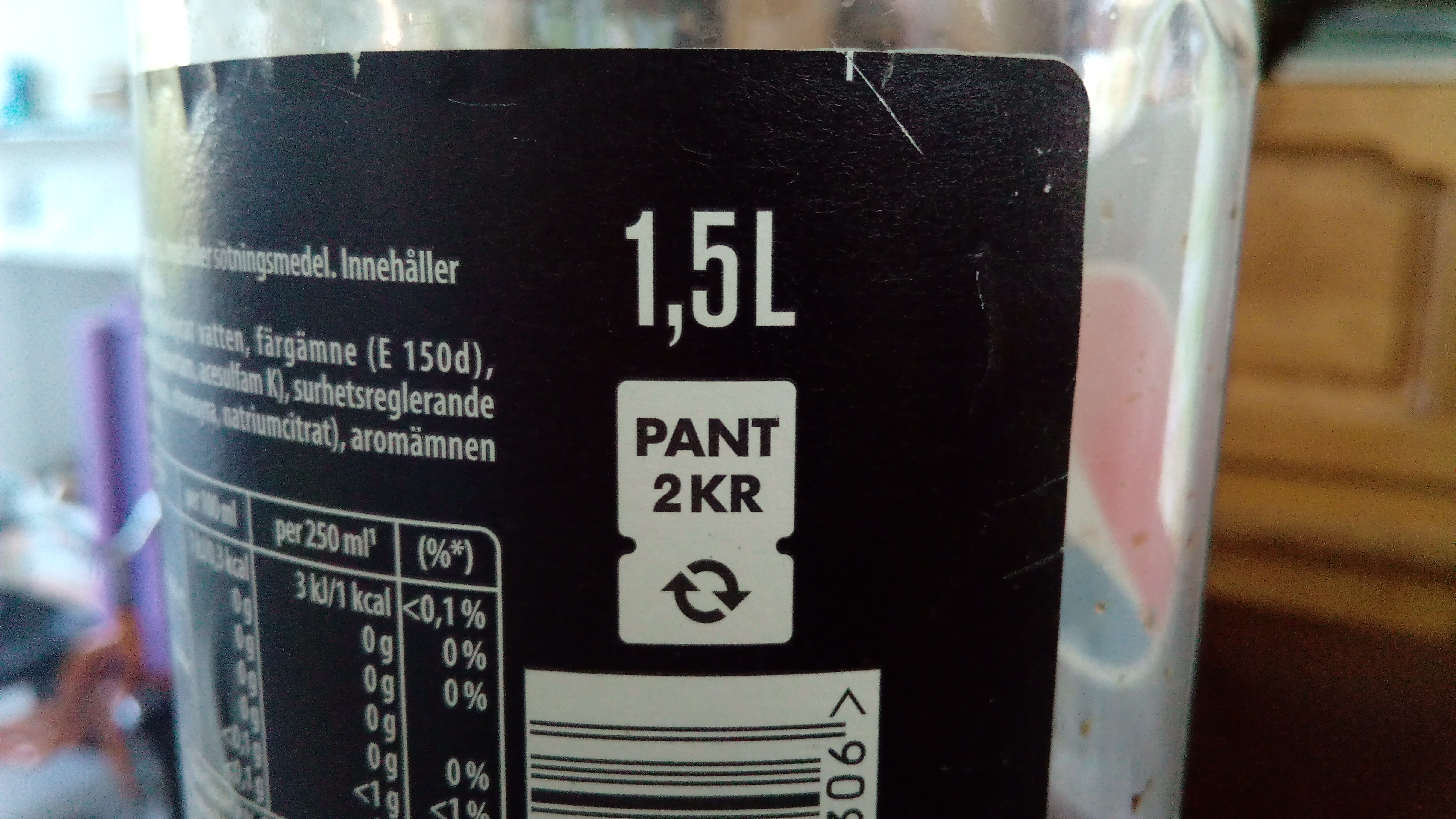 A Swedish bottle with a return deposit scheme for 2 Swedish Crowns found in the Groninger village of Oude Pekela.